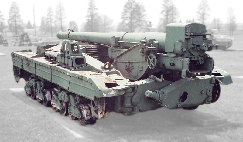 Semovente da 149/40 on display at the US Army Ordnance Museum at Aberdeen. The picture taken in 2000.